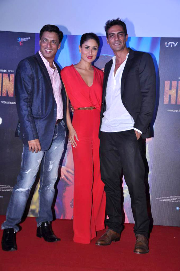 Arjun Rampal, Madhur Bhandarkar, Kareena Kapoor at the First look launch of 'Heroine'